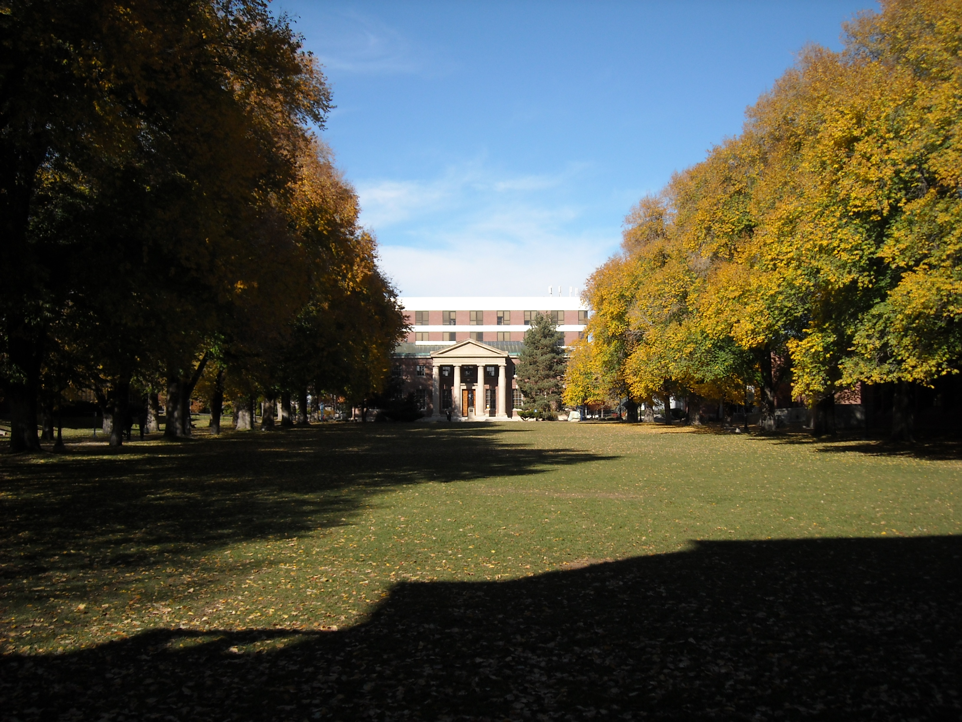 View of the Quad at the University of Nevada, Reno, looking north